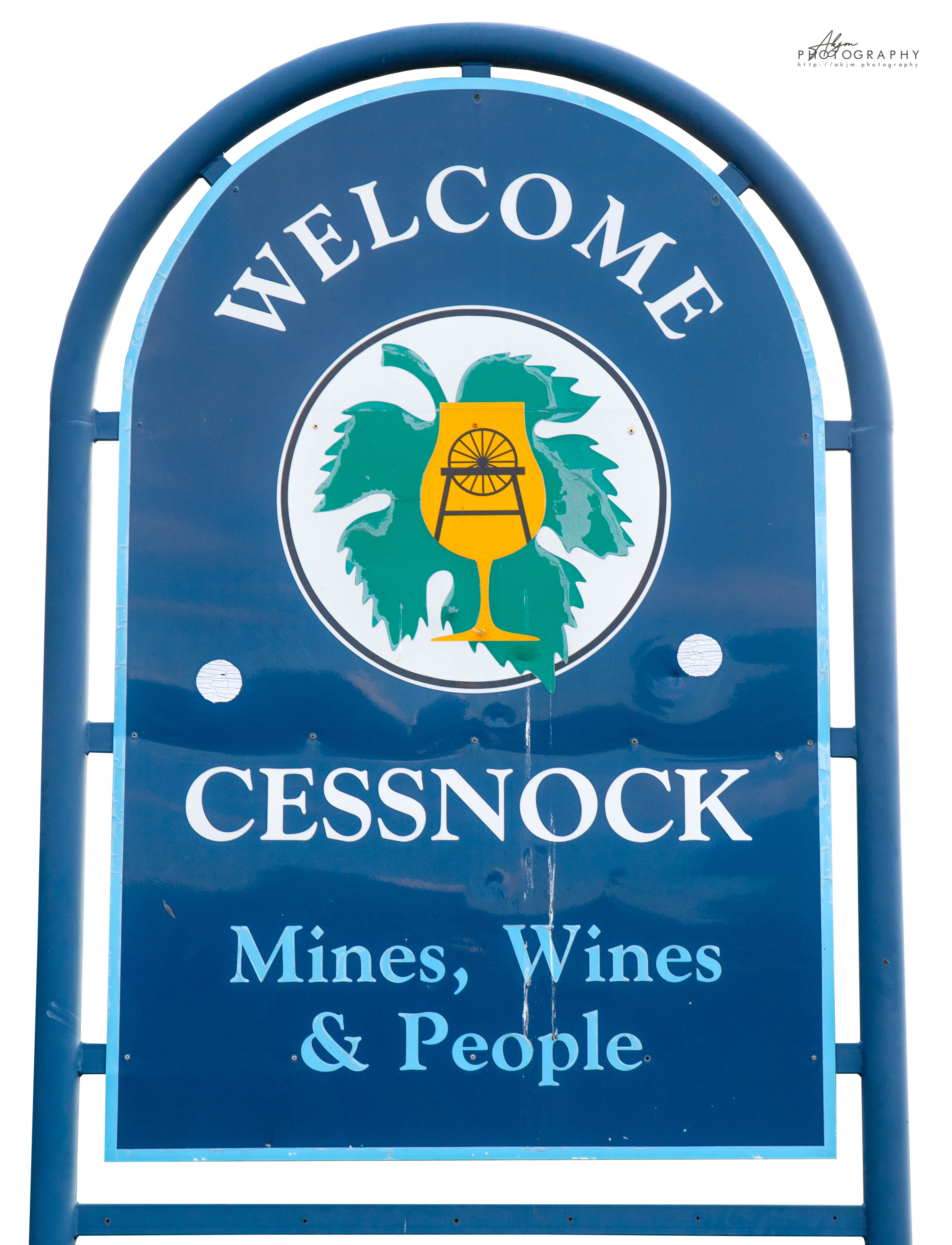 This sign is located at the perimeter of Aberdare NSW, a neighboring suburb of Cessnock NSW. This sign is placed in a prominent position, visible to those travelling North from Sydney into the area.